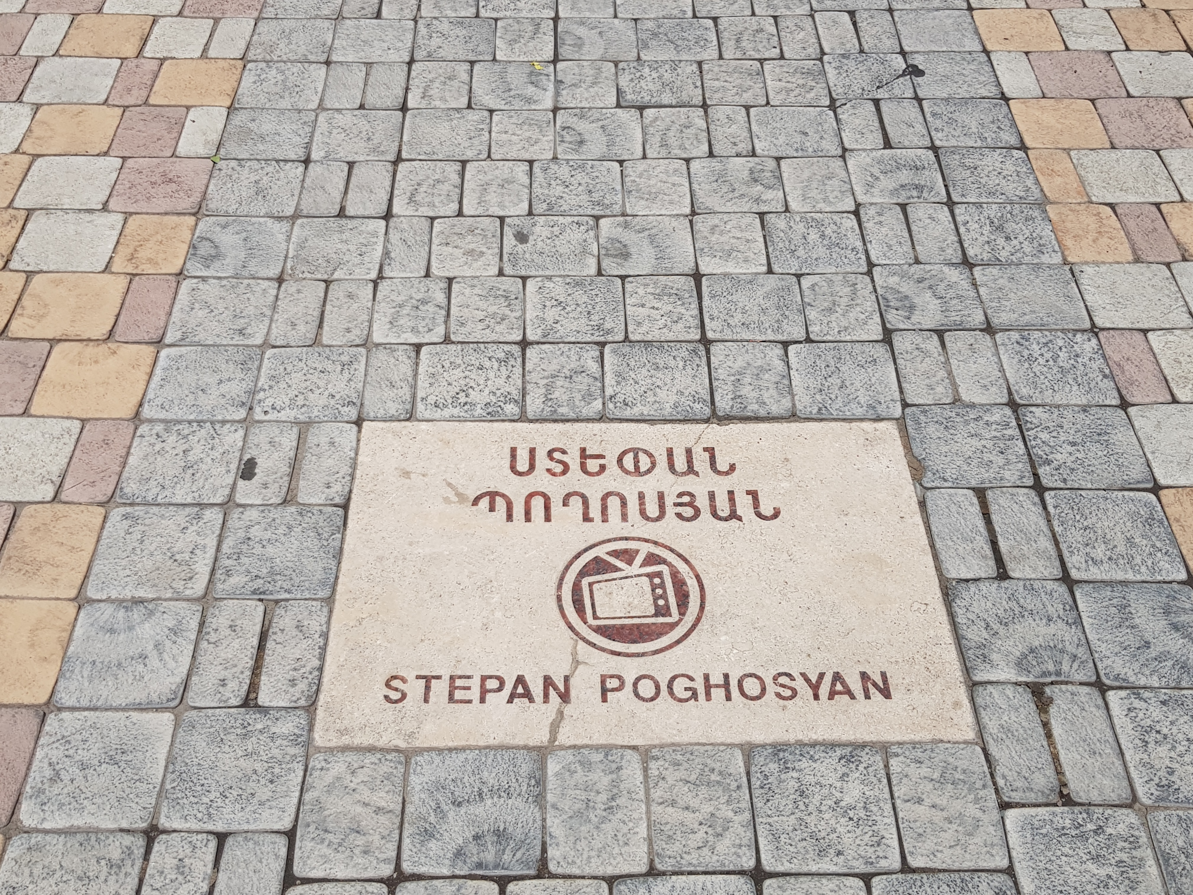 Alley of Devotees, Yerevan